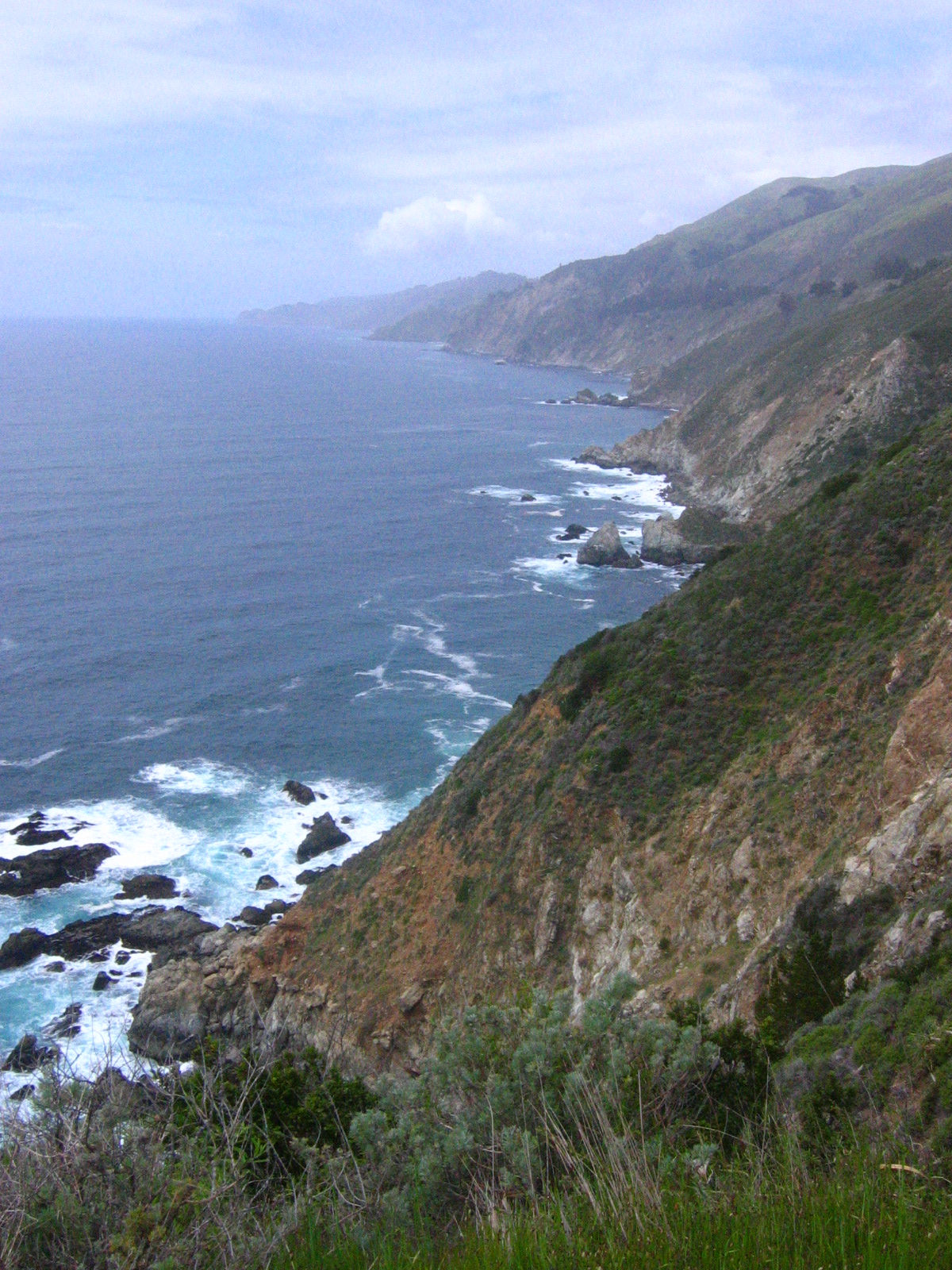 Description : Big Sur, California, april 2006 Author : own work, Urban. I took this picture on April 2006.